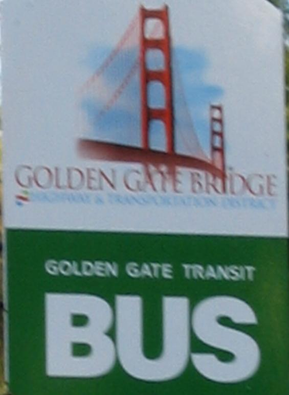 New logo of Golden Gate Transit used as a bus stop in Novato, CA.